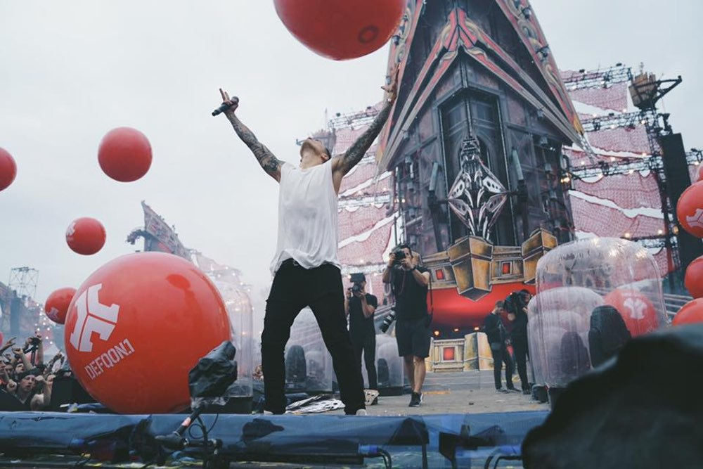 Heady returning home - Defqon1